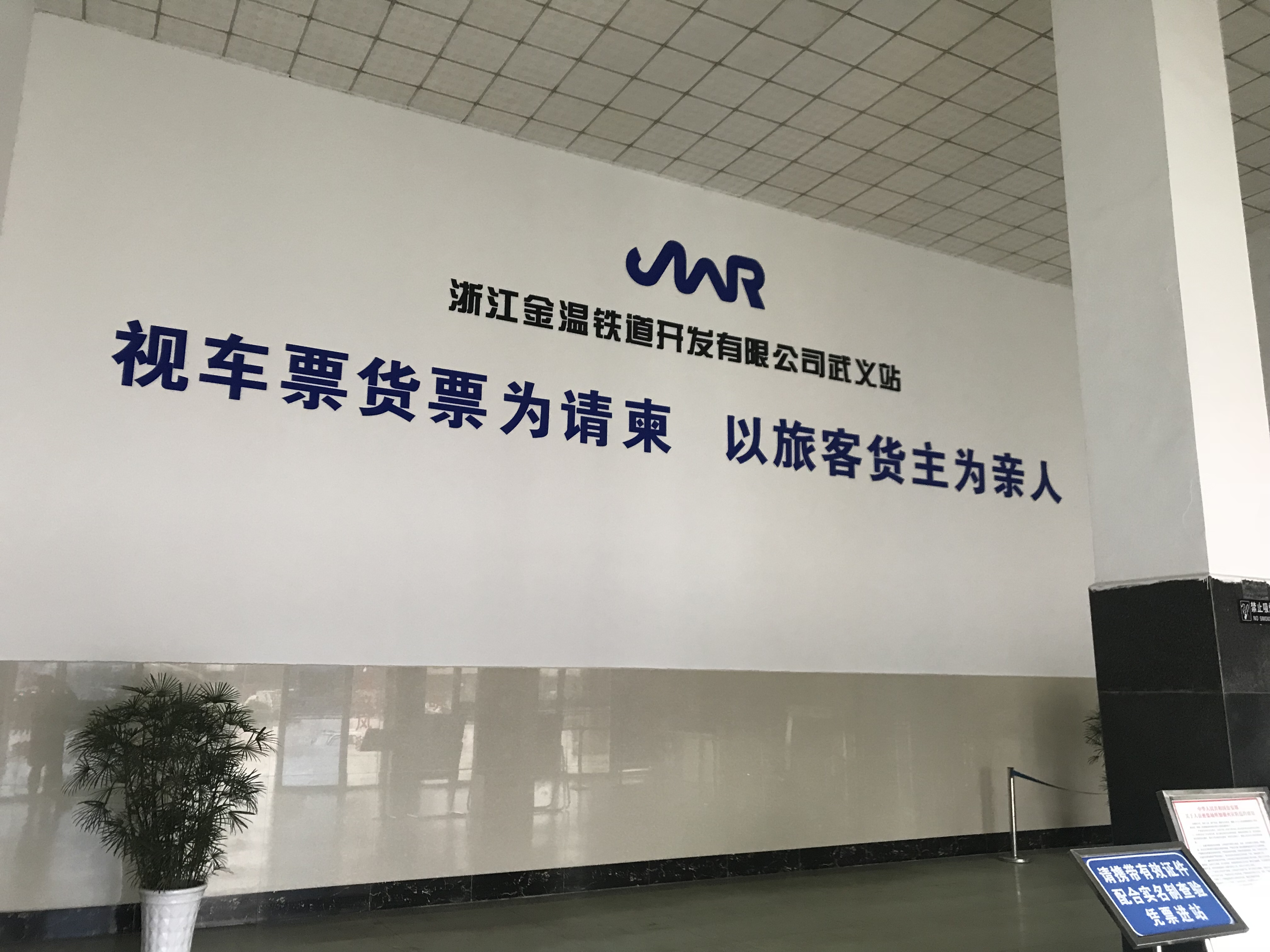 201805 Entrance of Wuyi Station